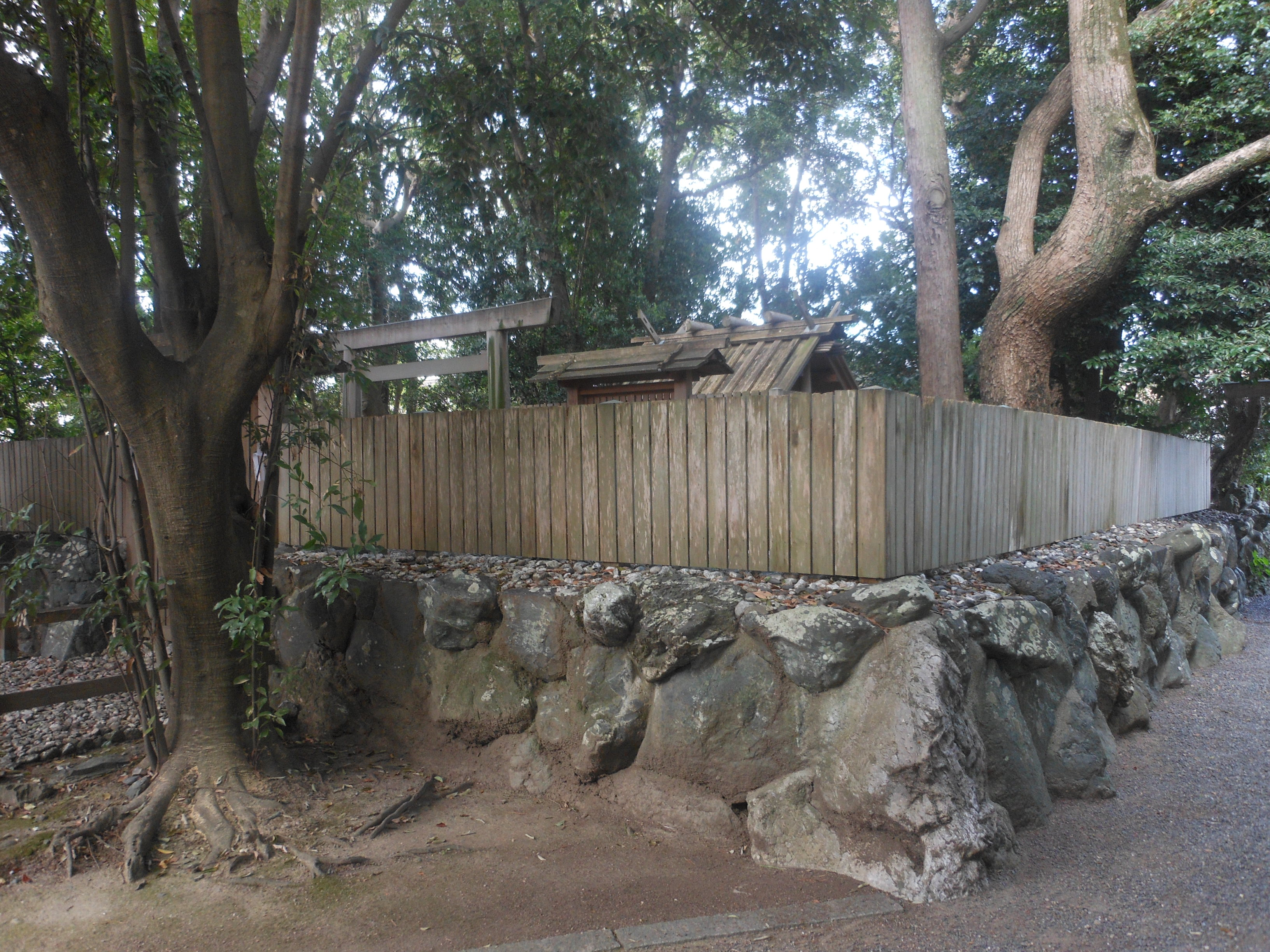 This is the Mike shrine, which is located in Kamiyashiroko, Ise, Mie, Japan.